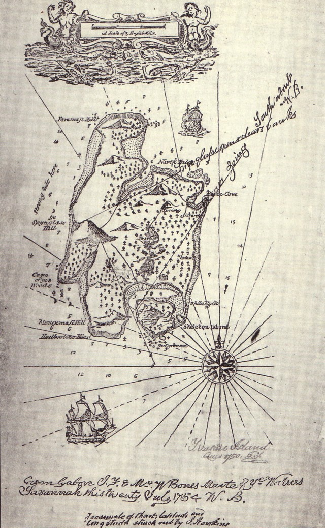 map of Treasure Island, from the first German edition